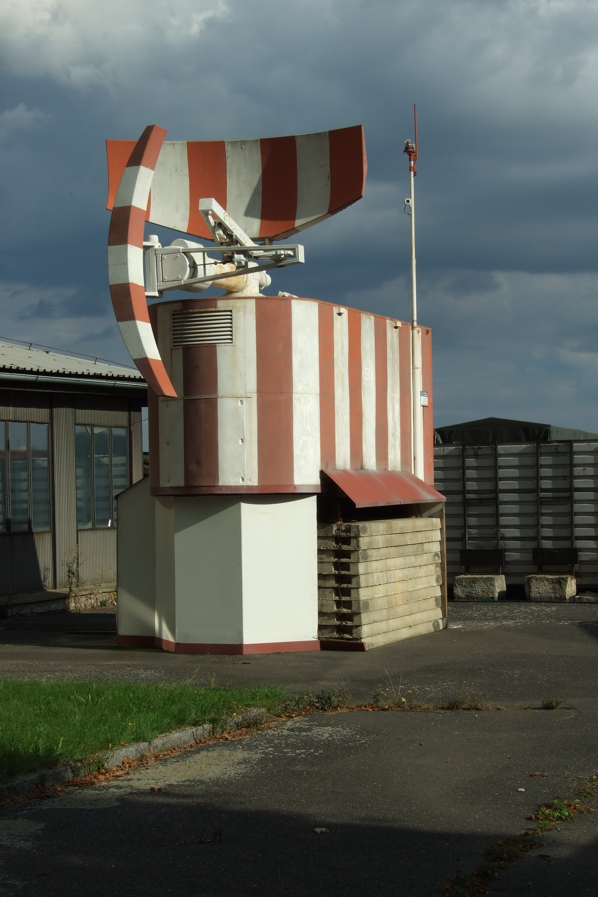 Czechoslovak Air Traffic Control Radar Tesla OPRL-4 (Aircraft muzeum Kbely